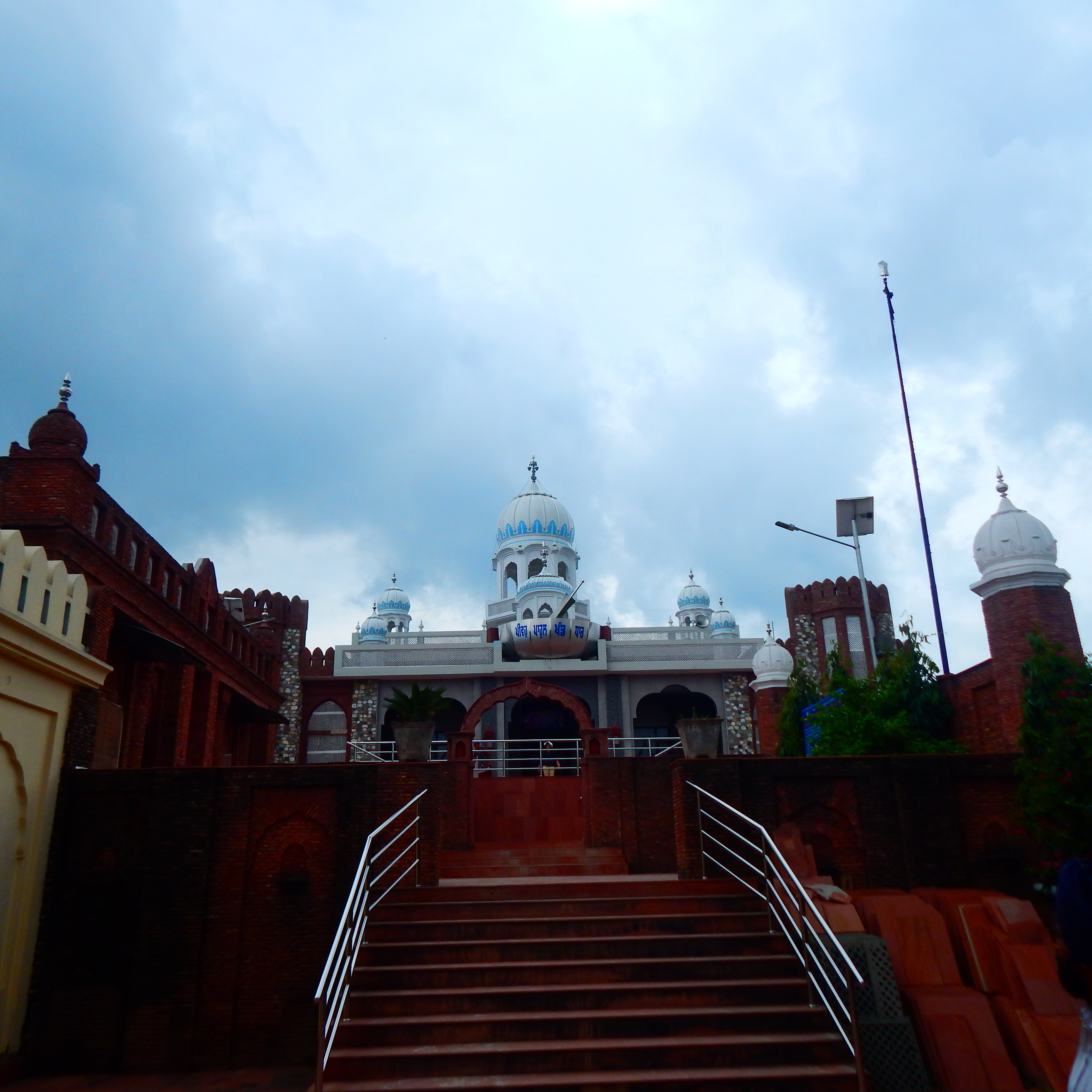 Birth and Marriage place of Mata Sundri, Wife of Guru Gobind Singh, (10th Guru of Sikh and Founder of Sikhism)